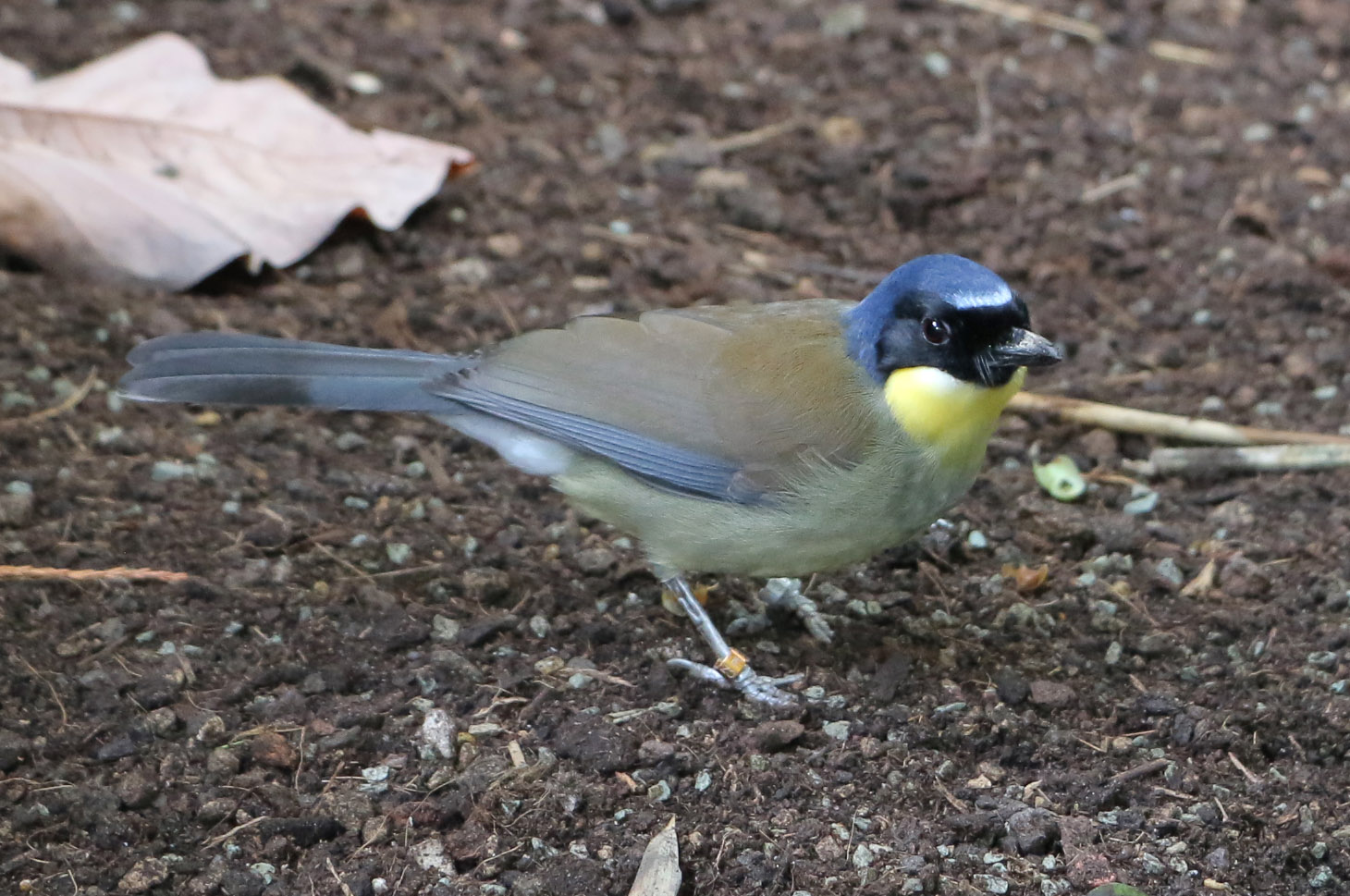 Blue-crowned laughingthrush (Courtois's laughingbird) in Prague Zoo.